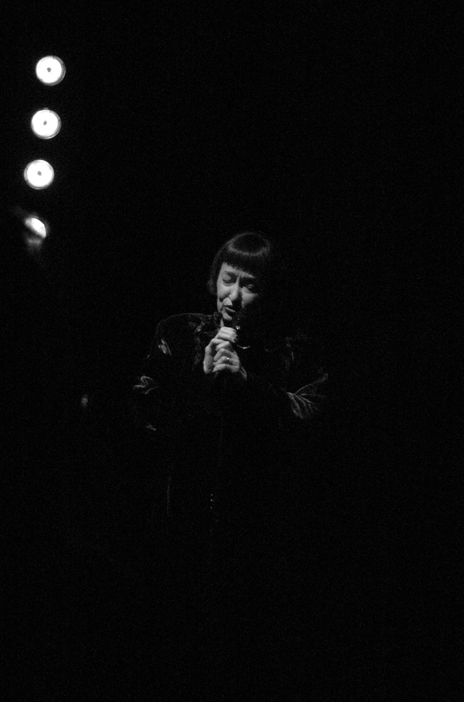 78 years old, and still counting.